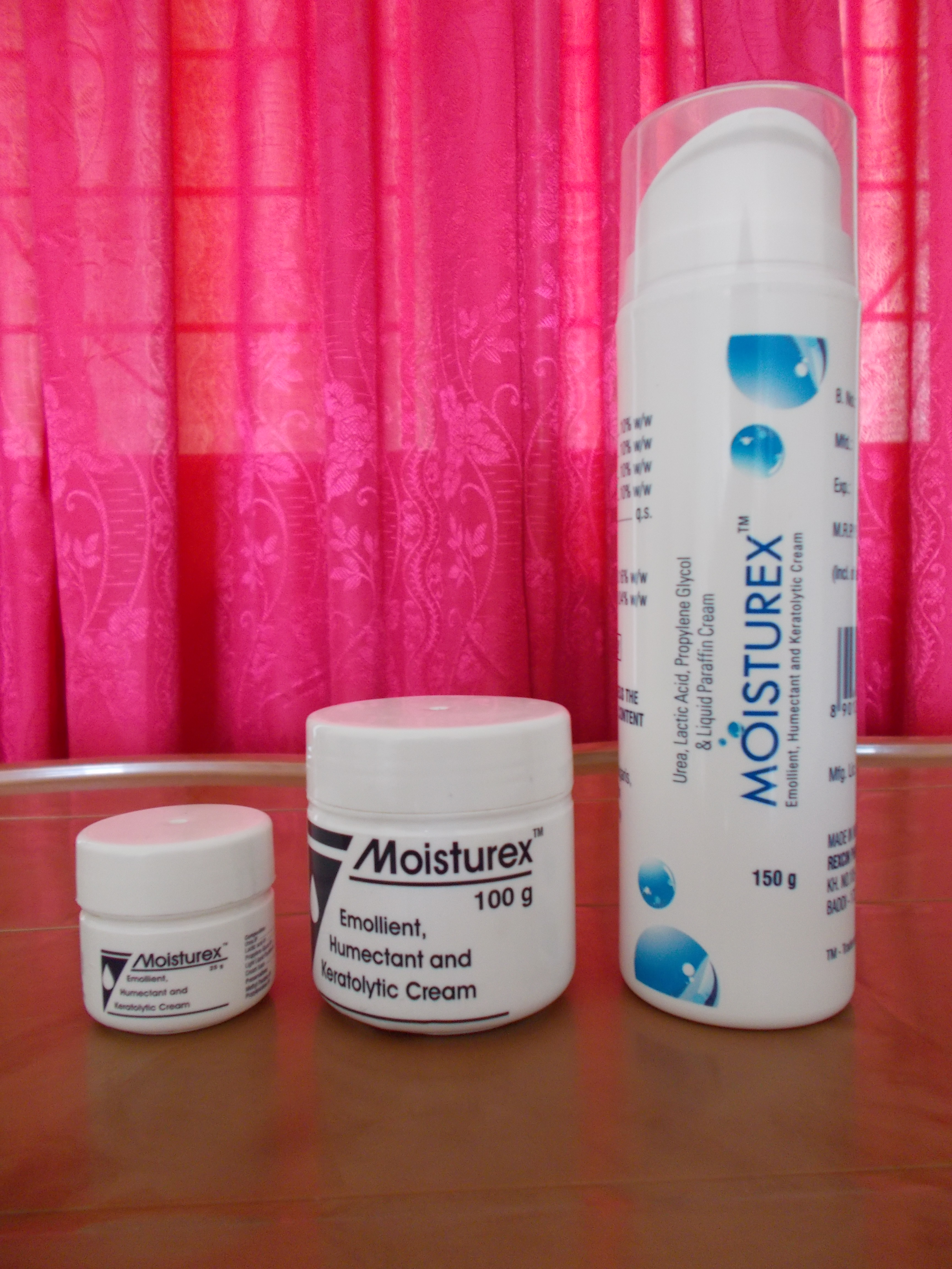 Moisturex cream used as a remedy (not a cure) for Icthyosis Vulgaris/Ichtyosis Simplex. It used to be manufactured in 25 grams and 100 grams bottles till Feb 2012. From Mar 2012 it has been being manufactured in 125 grams pump.